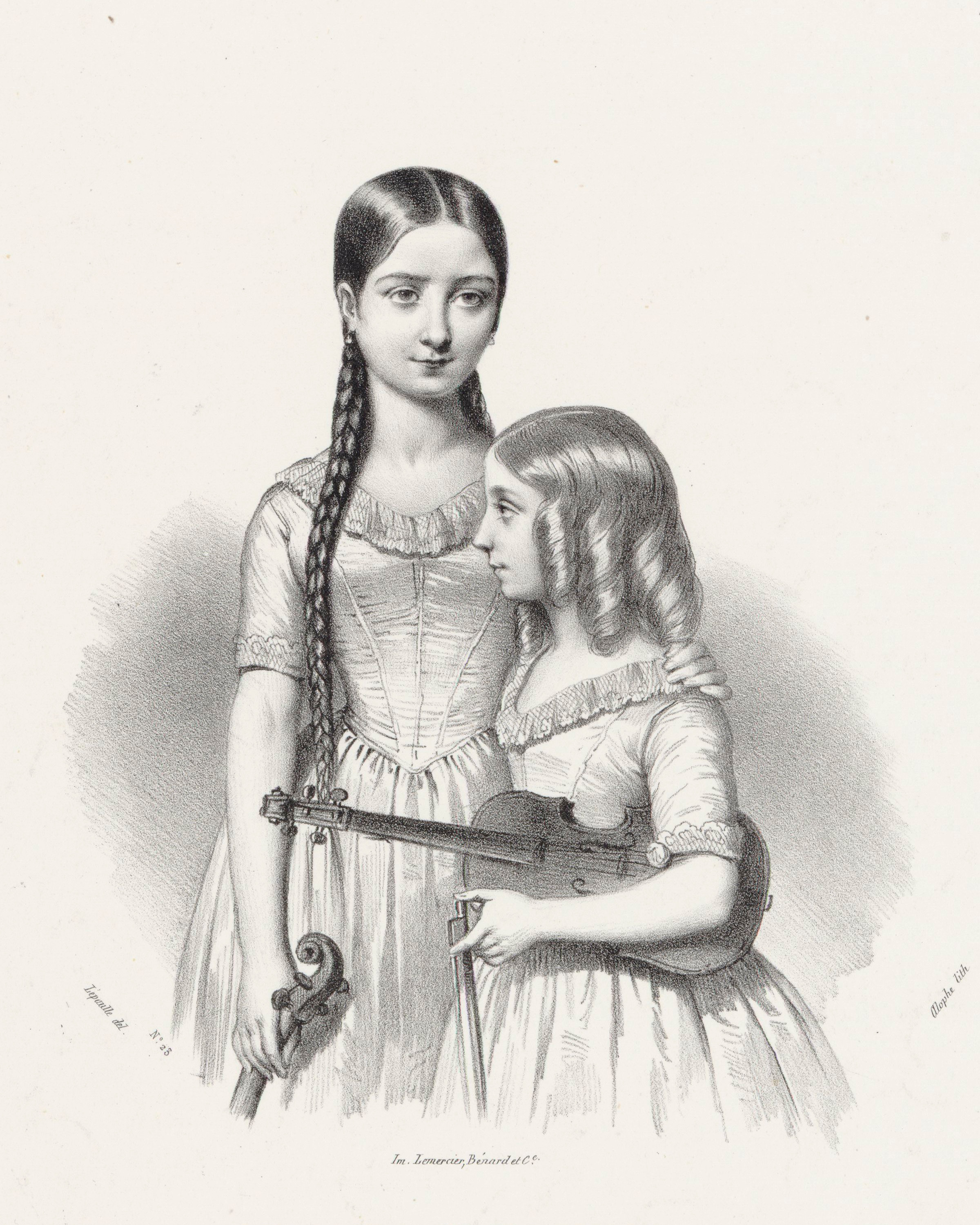 Italian violinist and composer Teresa Milanollo (1827-1904) with her sister Maria. Lithograph by Marie-Alexandre Alophe (1812-1883) after François-Gabriel Lépaulle (1804-1886).